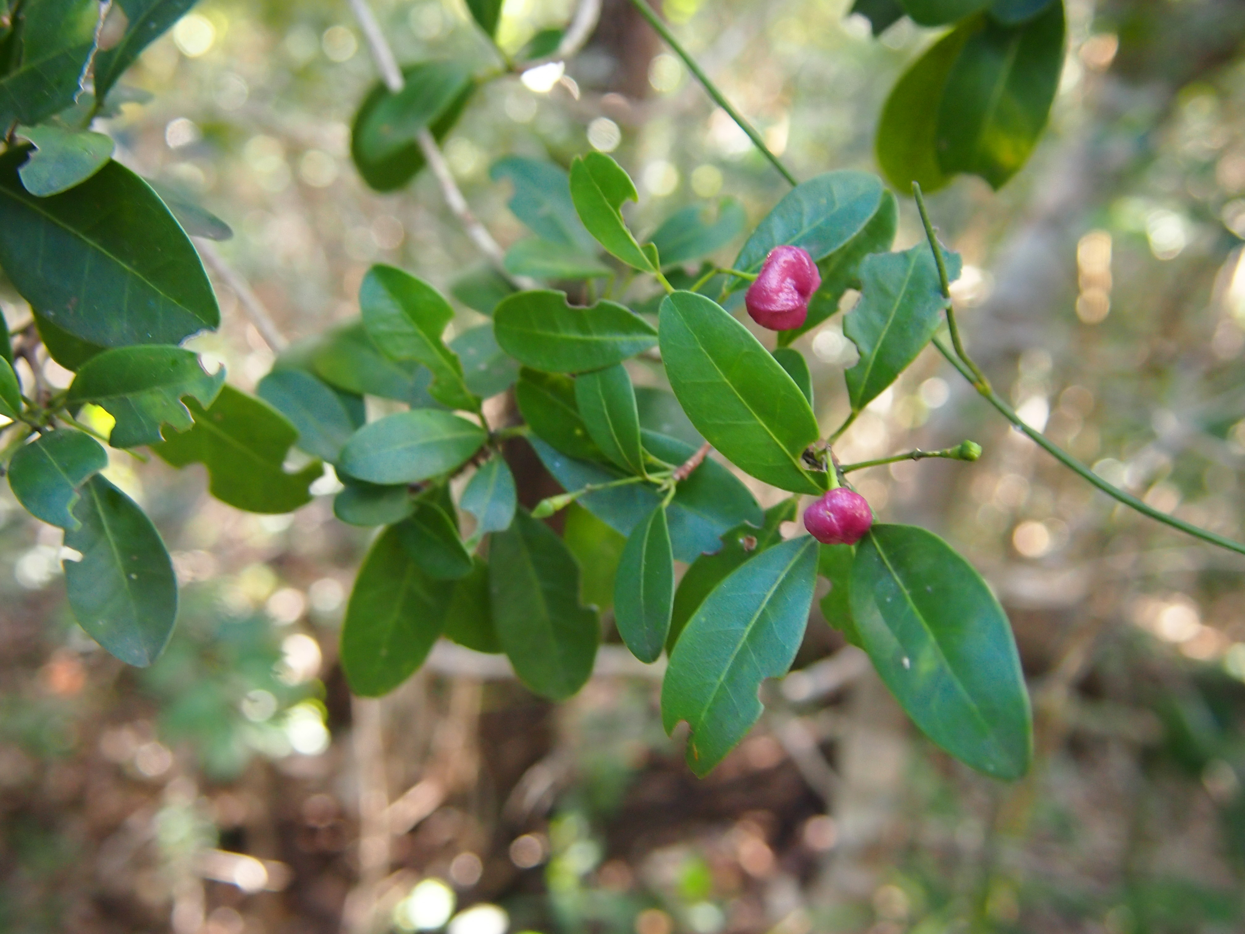 'Acronychia laevis foliage and fruit